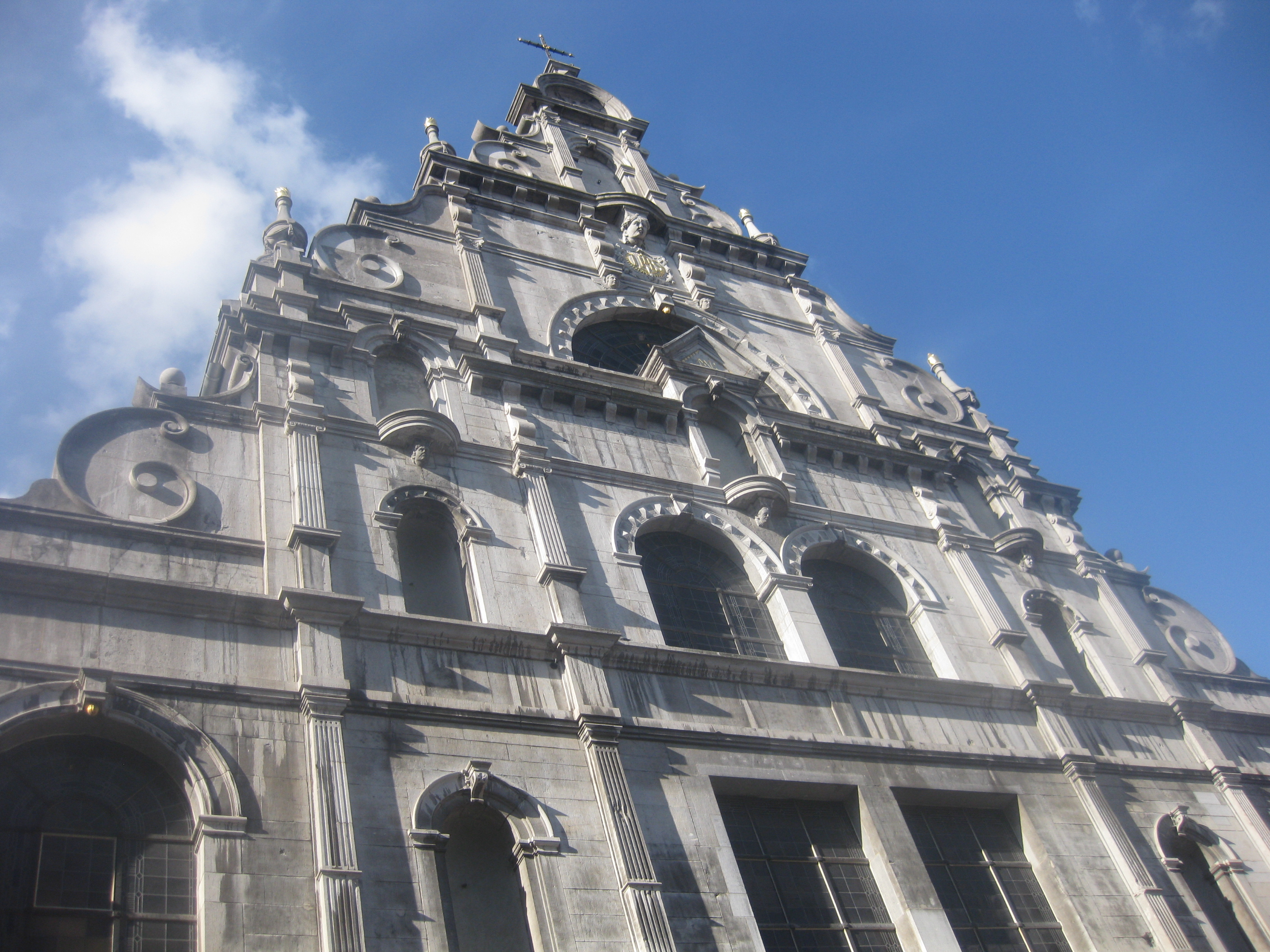 Aachen, greek-orthodox church St. Michael and St. Dimitrios in the Jesuitenstr.